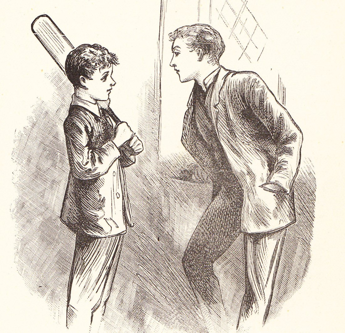 A drawing of two schoolboys from St. Dominic's, the fictitious Victorian public school depicted by Talbot Baines Reed